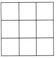 Gameboard for Tic-tac-toe